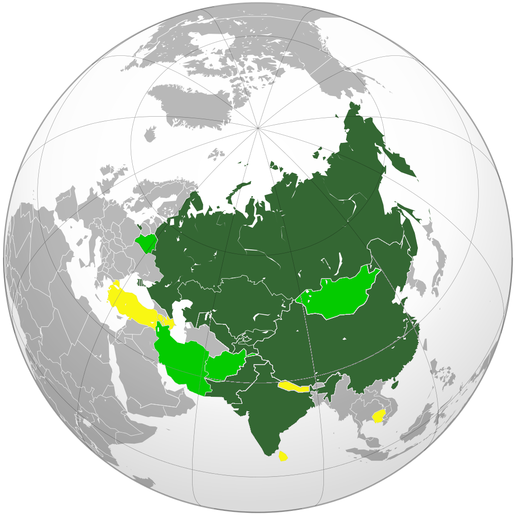 SCO MAP 10 July 2015 - Including two new permanent members Pakistan and India.